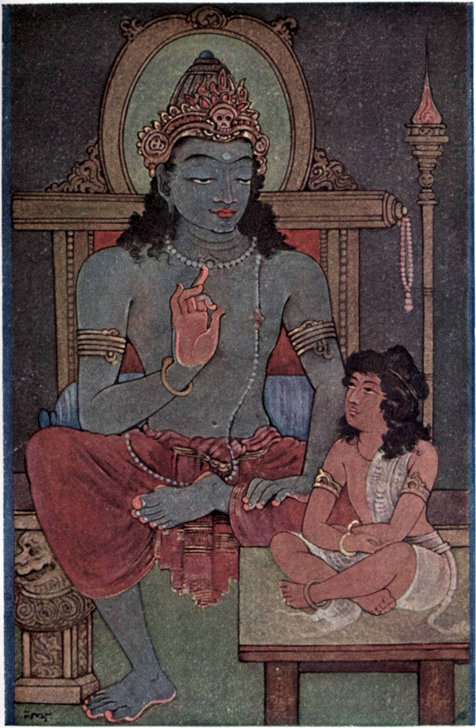 Myths of the Hindus & Buddhists (1914) Author: Nivedita, Sister, 1867-1911; Coomaraswamy, Ananda Kentish, 1877-1947 Subject: Mythology, Hindu; Mythology, Indic; Buddha and Buddhism Publisher: London Harrap Possible copyright status: NOT_IN_COPYRIGHT Language: English Call number: AAV-0085 Digitizing sponsor: MSN Book contributor: Robarts - University of Toronto Collection: robarts; toronto Full catalog record: MARCXML [Open Library icon]This book has an editable web page on Open Library. Be the first to write a review Downloaded 855 times Reviews Selected metadata Identifier: mythsofthehindus00niveuoft Copyright-evidence-operator: University of Toronto scanning center Copyright-region: US Copyright-evidence: Evidence reported by University of Toronto scanning center for item mythsofthehindus00niveuoft on May 12, 2006; no visible notice of copyright and date found; stated date is 1914; not published by the US government; Have not checked for notice of renewal in the Copyright renewal records. Copyright-evidence-date: 2006-05-12 20:39:44 Scanningcenter: UofT Operator: scanner-joanna-woodcock Mediatype: texts Scanner: uoft3 Scandate: 20060517130853 Imagecount: 518 Sponsordate: 20060531 Filesxml: Thu Mar 18 6:17:31 UTC 2010 Ppi: 500 Identifier-access: Identifier-ark: ark:/13960/t50g4p70x